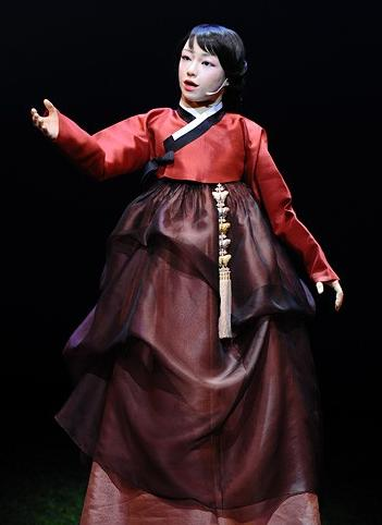 Ever3, an android in Hanbok.